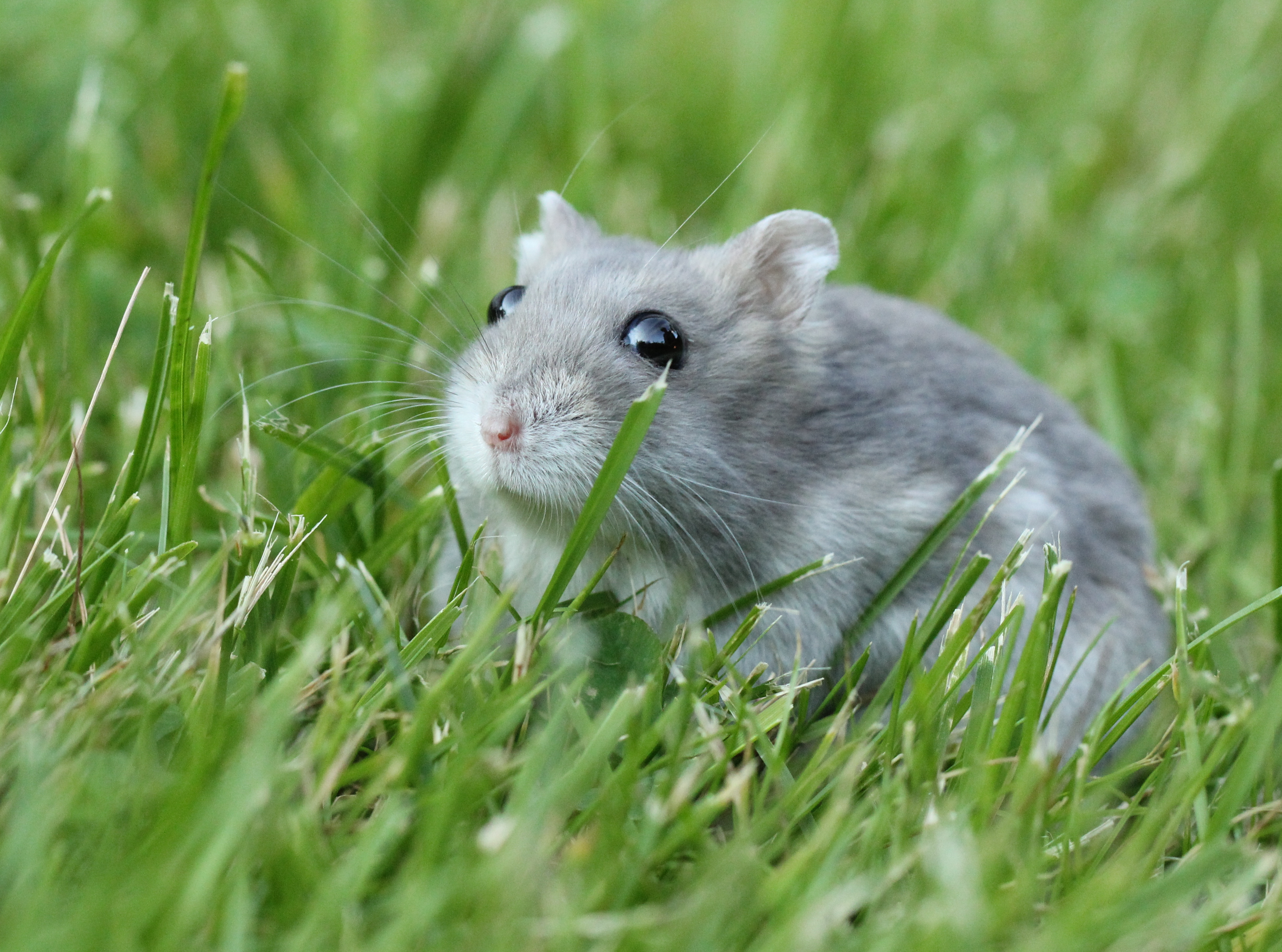 This is Gandalf, the Djungarian hamster. It was white, but turned grey after some months.